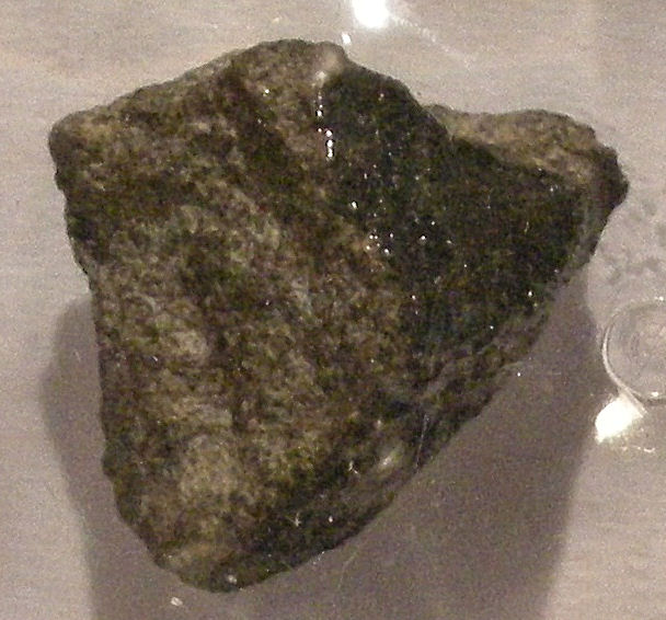 Stannern meteorite